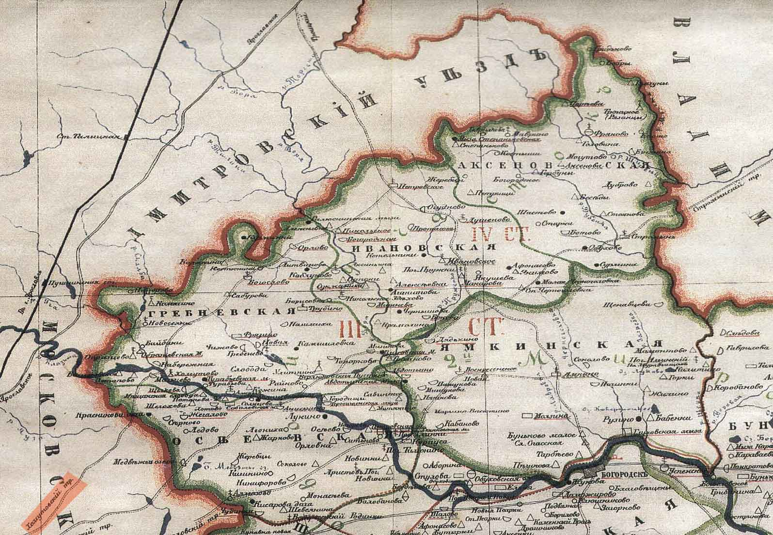 Map of the now-defunct Khomutovsky tract. North-east of Moscow Governorate. Russia.